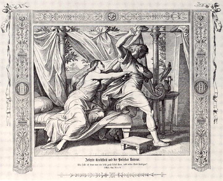 Woodcut for "Die Bibel in Bildern", 1860.